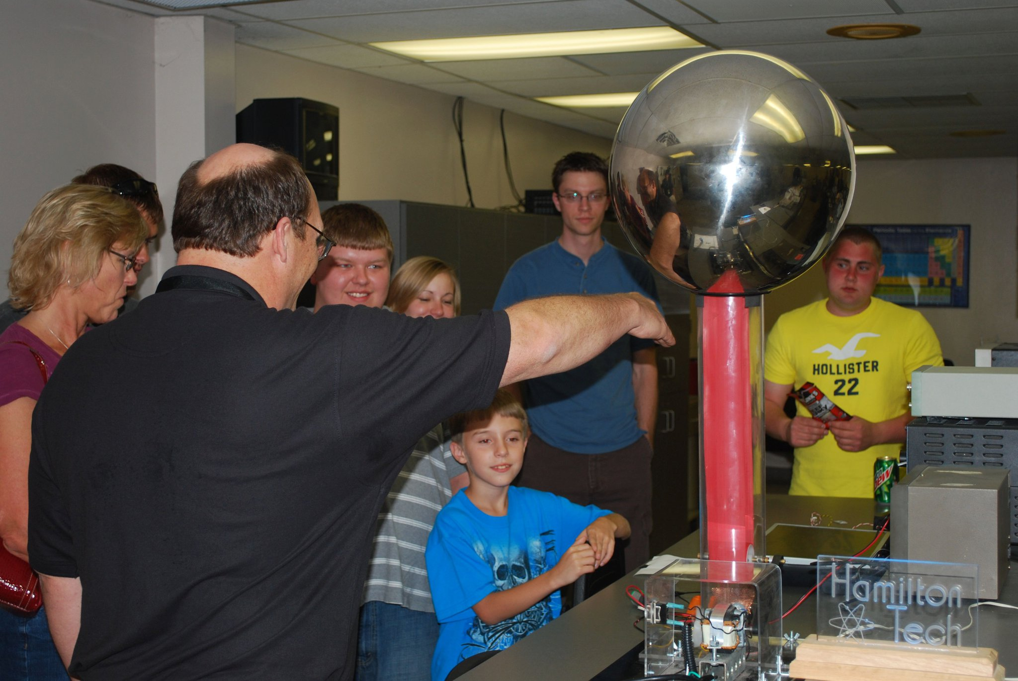 Hamilton Technical College instructor, Craig Wright, with on-looking students.